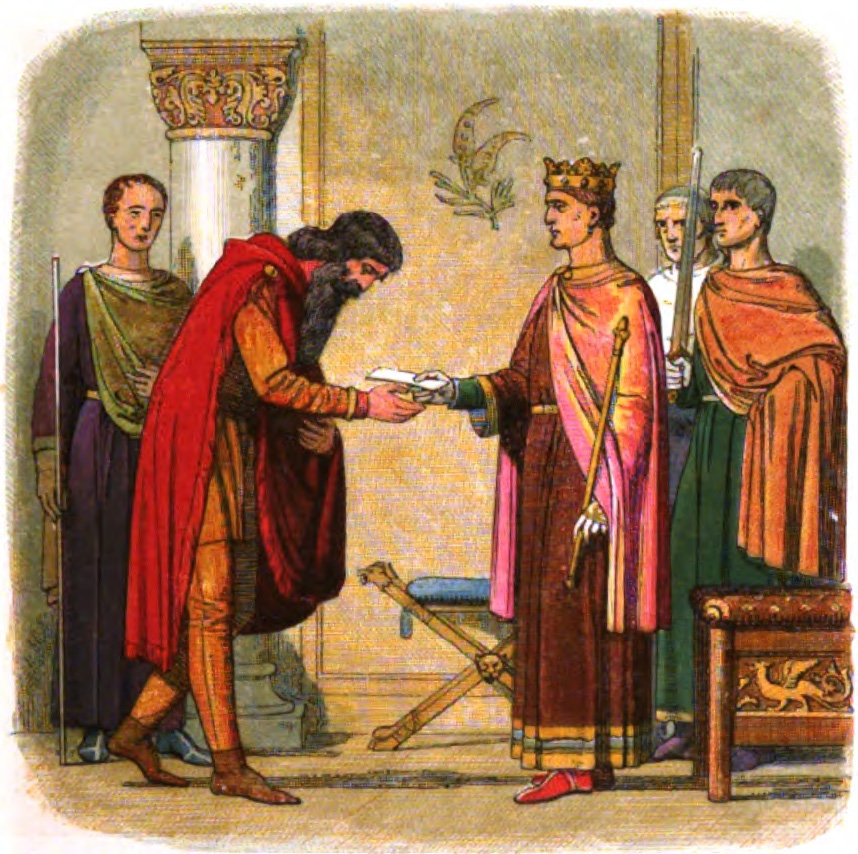 Henry II grants Dermot MacMurrough permission to raise forces to take back the kingdom of Leinster.